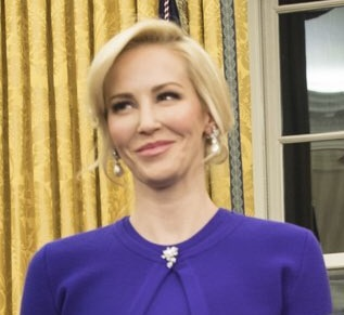 As one of America's foremost business leaders and economic experts, Steven Mnuchin will serve America well as @USTreasury Secretary. (Featuring Louise Linton)